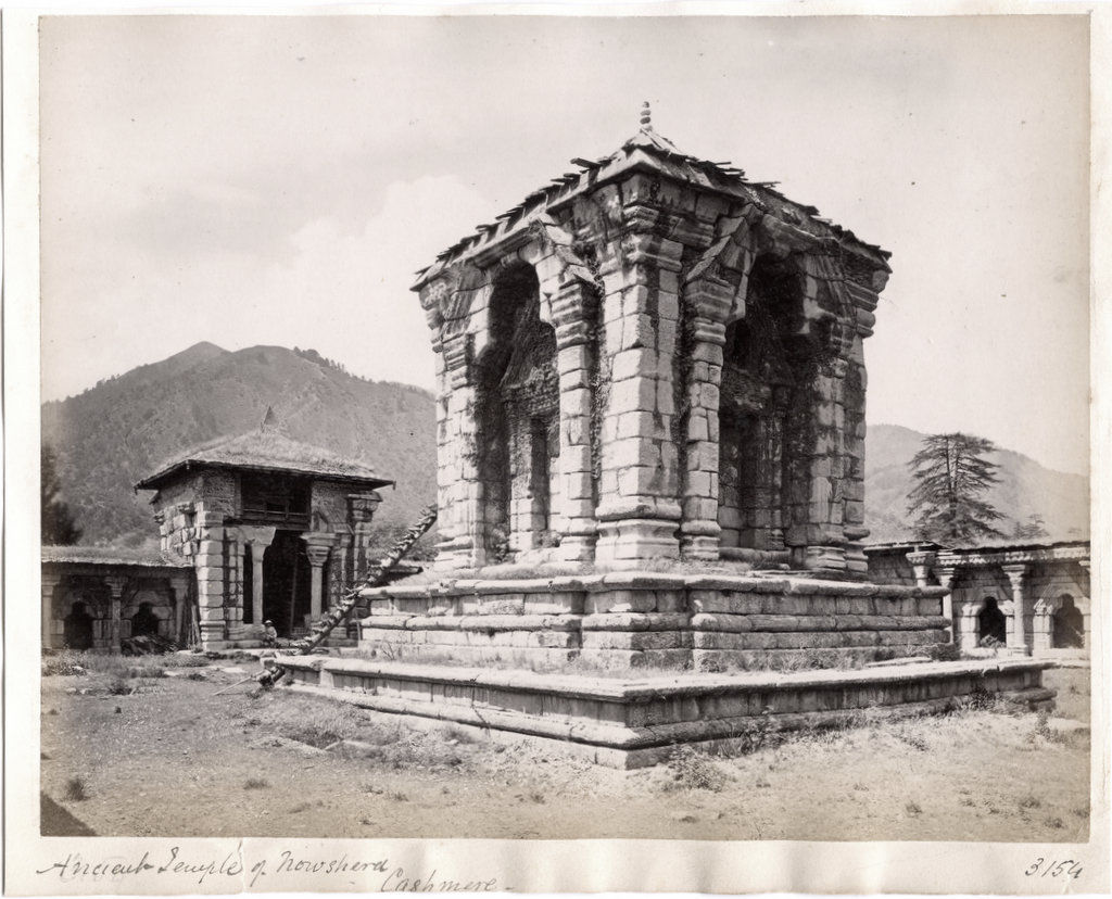 Temple referred to as Nawshehra Temple in 1870s. It is the Buniyar Temple on the road between Uri and Nawshera